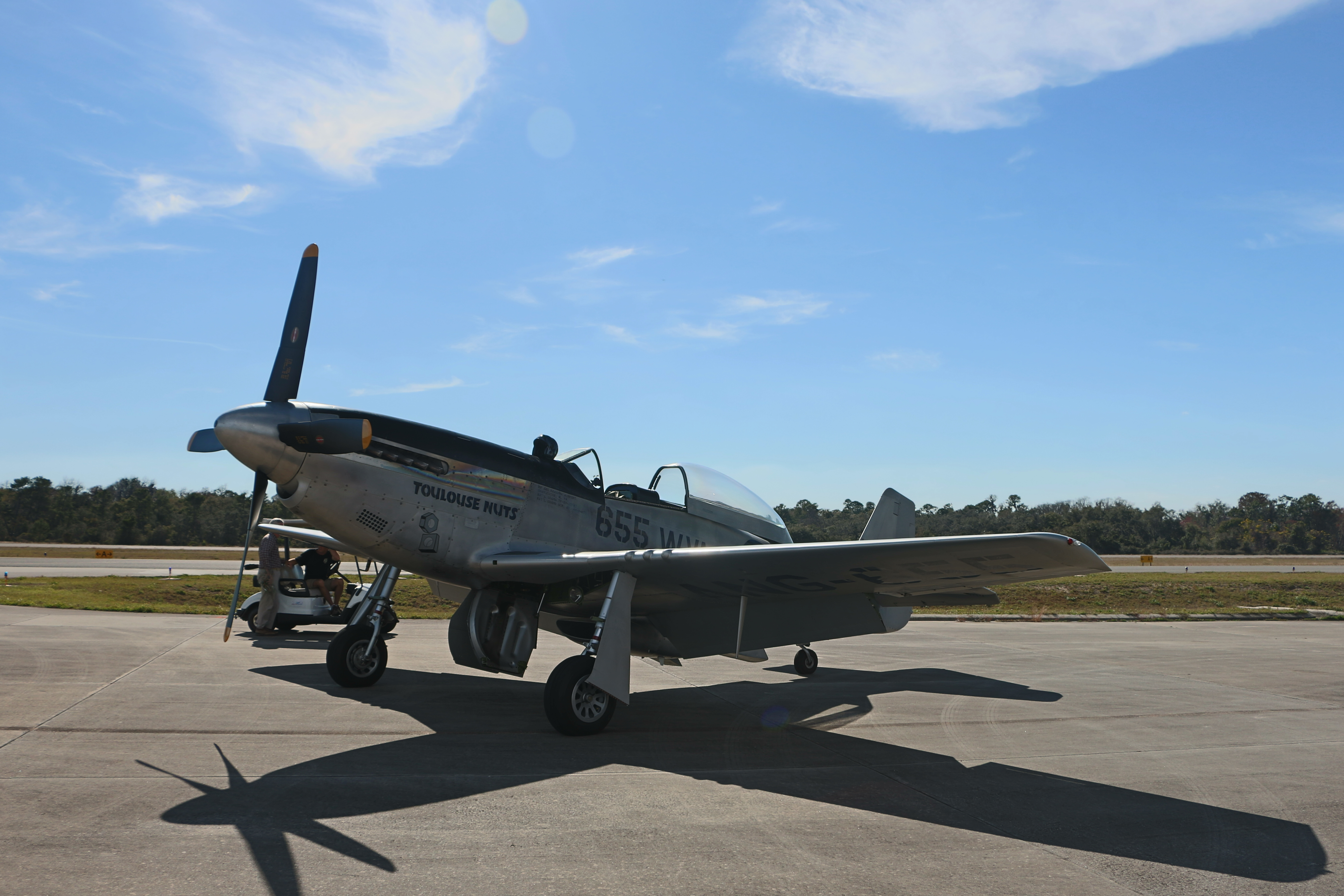 Collings Foundation's TF-51D, "Toulouse Nuts" at Leesburg, FL, 02/07/2019